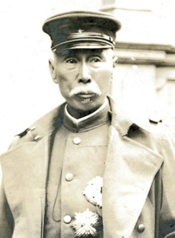 Prince Yamagata Aritomo, was a Japanese field marshal in the Imperial Japanese Army and twice Prime Minister of Japan. Photo taken before 1922.